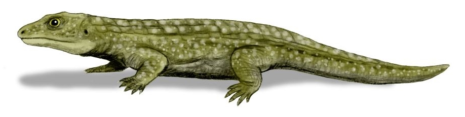 A juvenile Macroleter poezicus, a reptiliomorph from the Upper Permian of Russia, pencil drawing, digital coloring